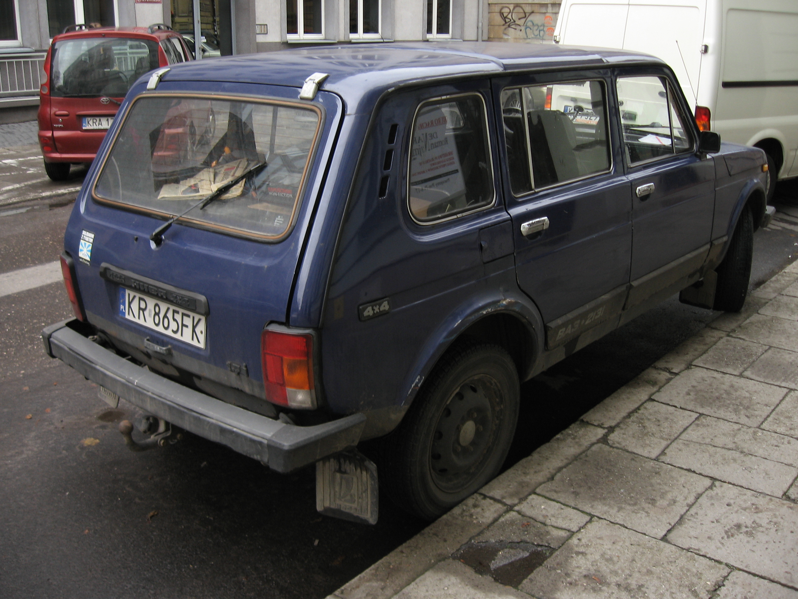 Lada Niva 21310 on Studencka street in Kraków.